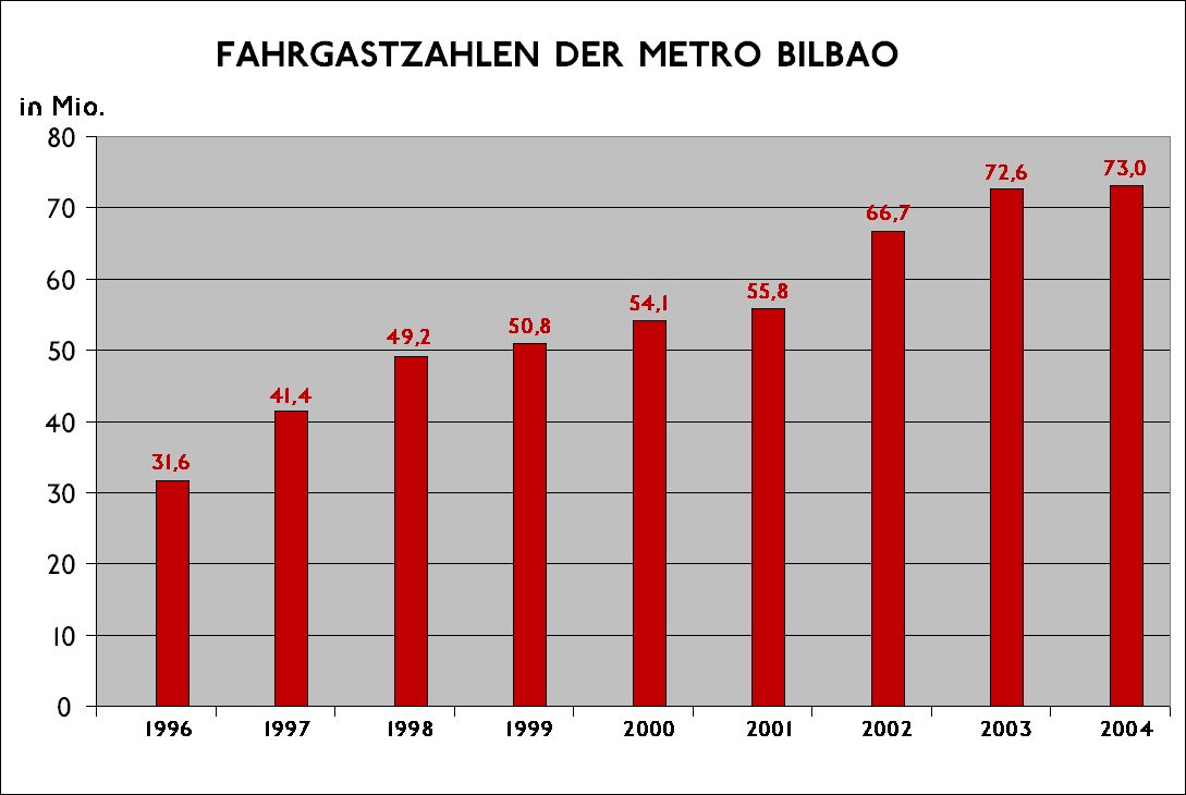 Ridership of Bilbao Metro (Years 1996-2004)